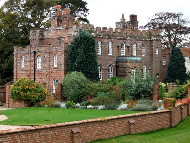 Manor House, Somersby Close-up of the house.